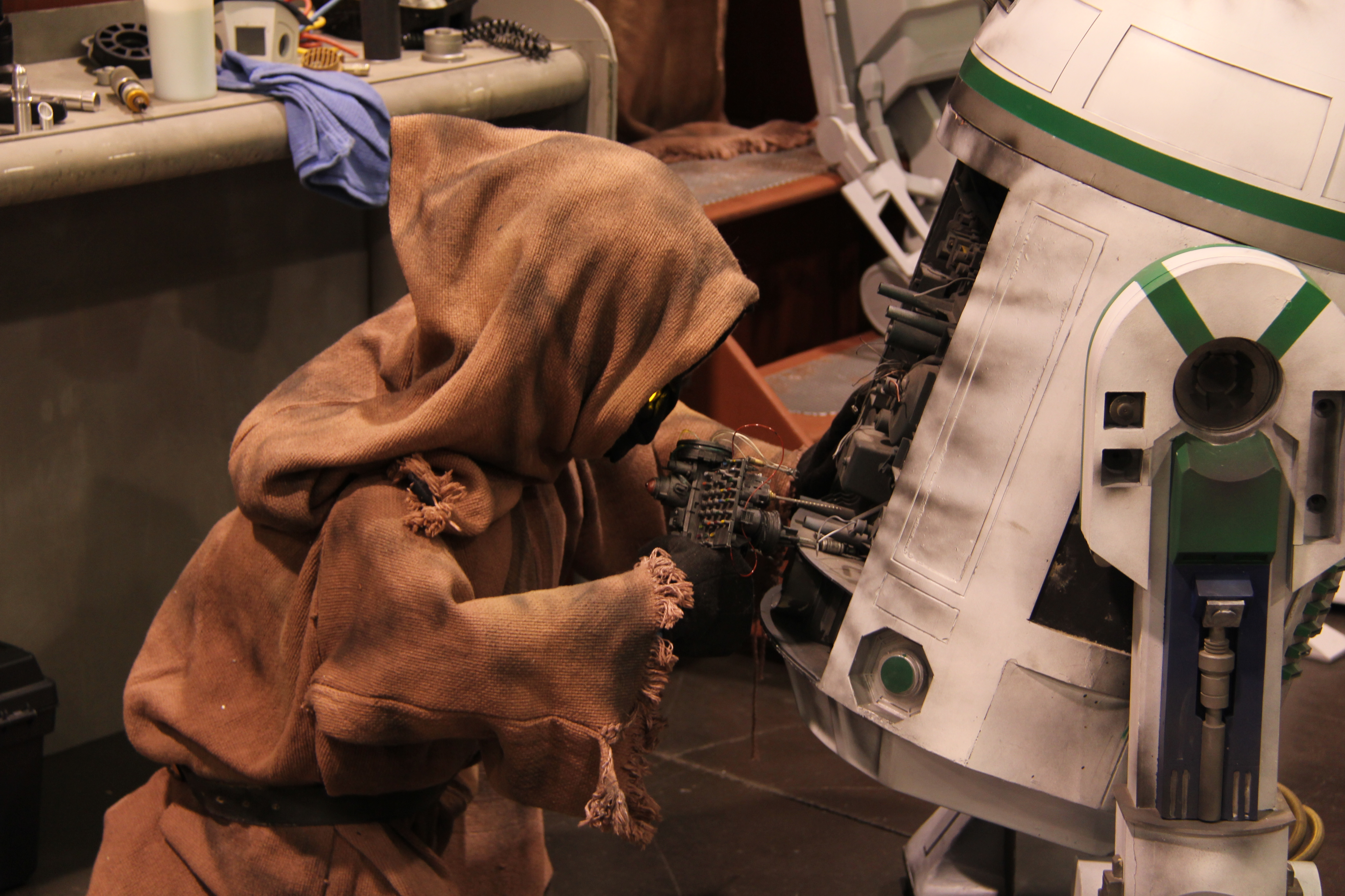 Jawas hard at work Star Wars Celebration in Anaheim, April 2015.